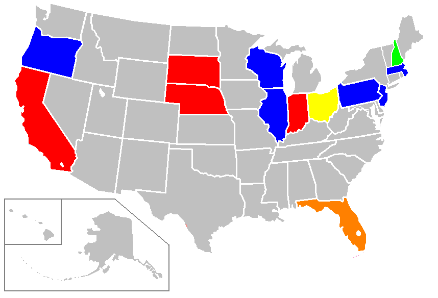 The 1968 Democratic Presidential primaries. Red = Kennedy Orange = Smathers Yellow = Young Green = Johnson Blue = McCarthy Grey = No primary